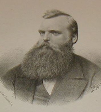 lithograph, József Zichy